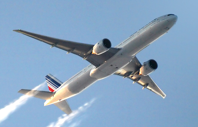 F-GZNB 32964